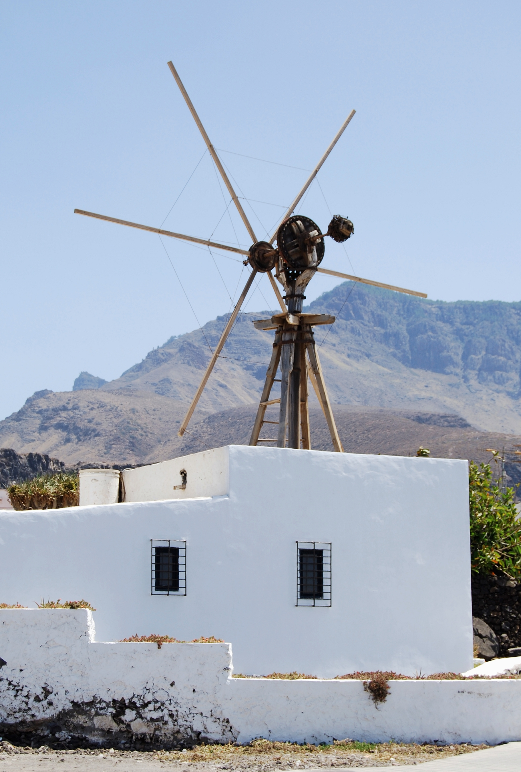 Windmill at Puerto de las Nieves, Gran Canaria.